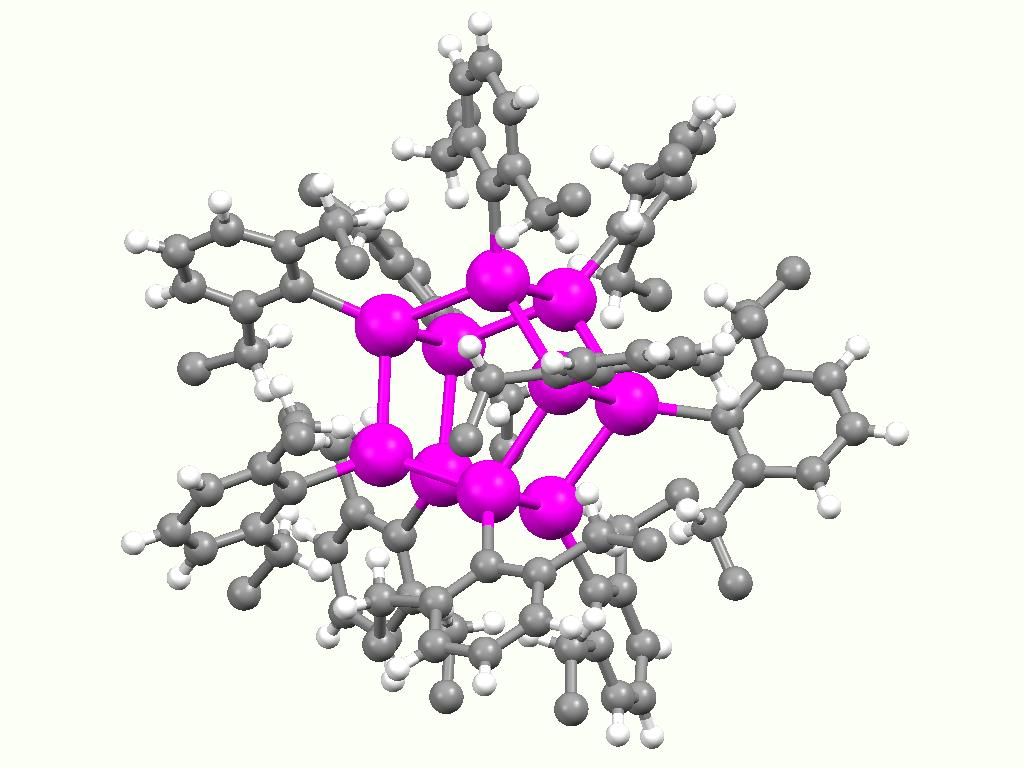 structure of [Sn(C6H3-2,6-Et2)]10 from atomic coords from CSD